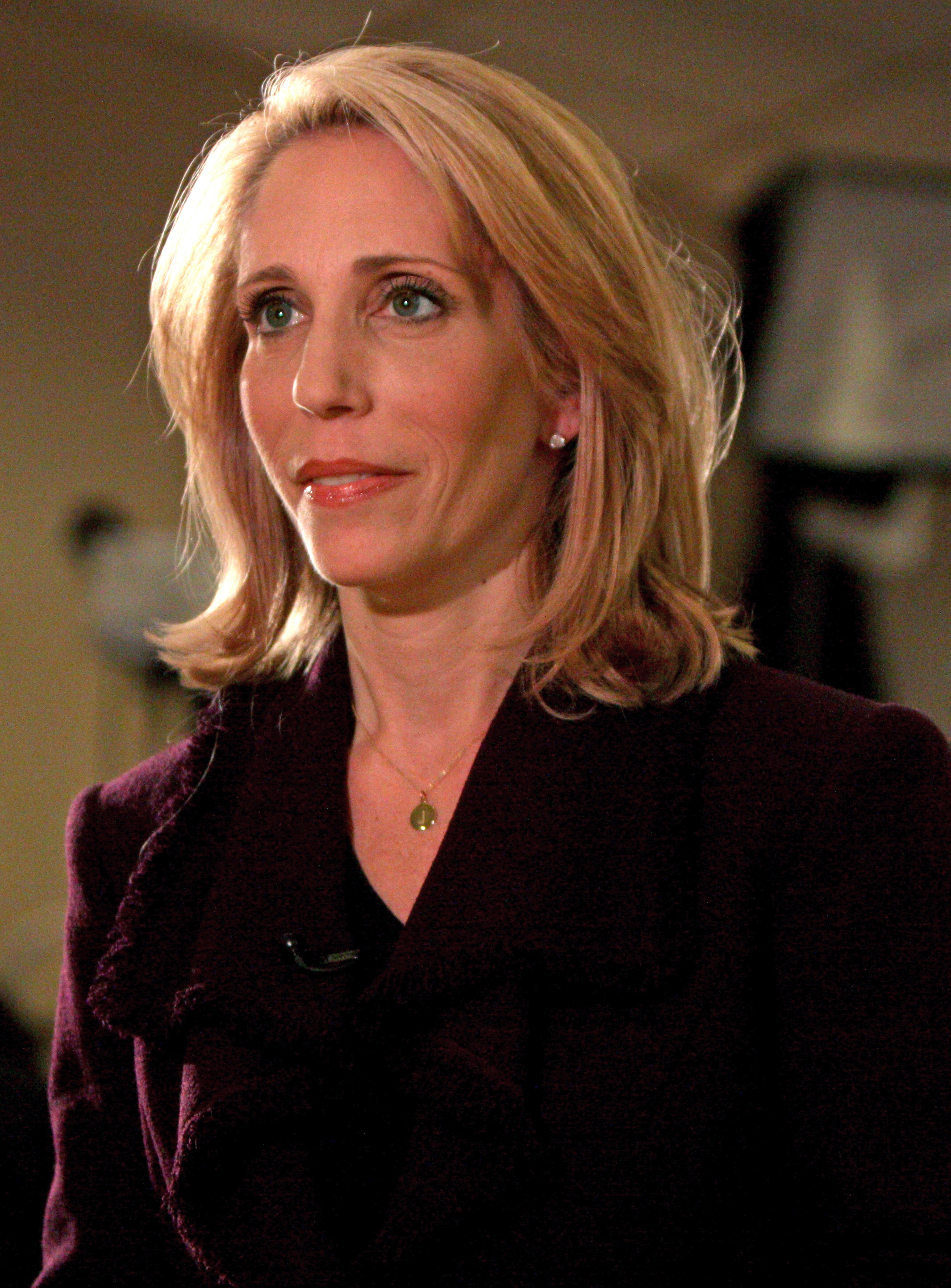 Dana Bash recording a piece for CNN in Manchester, New Hampshire on January 10, 2012.